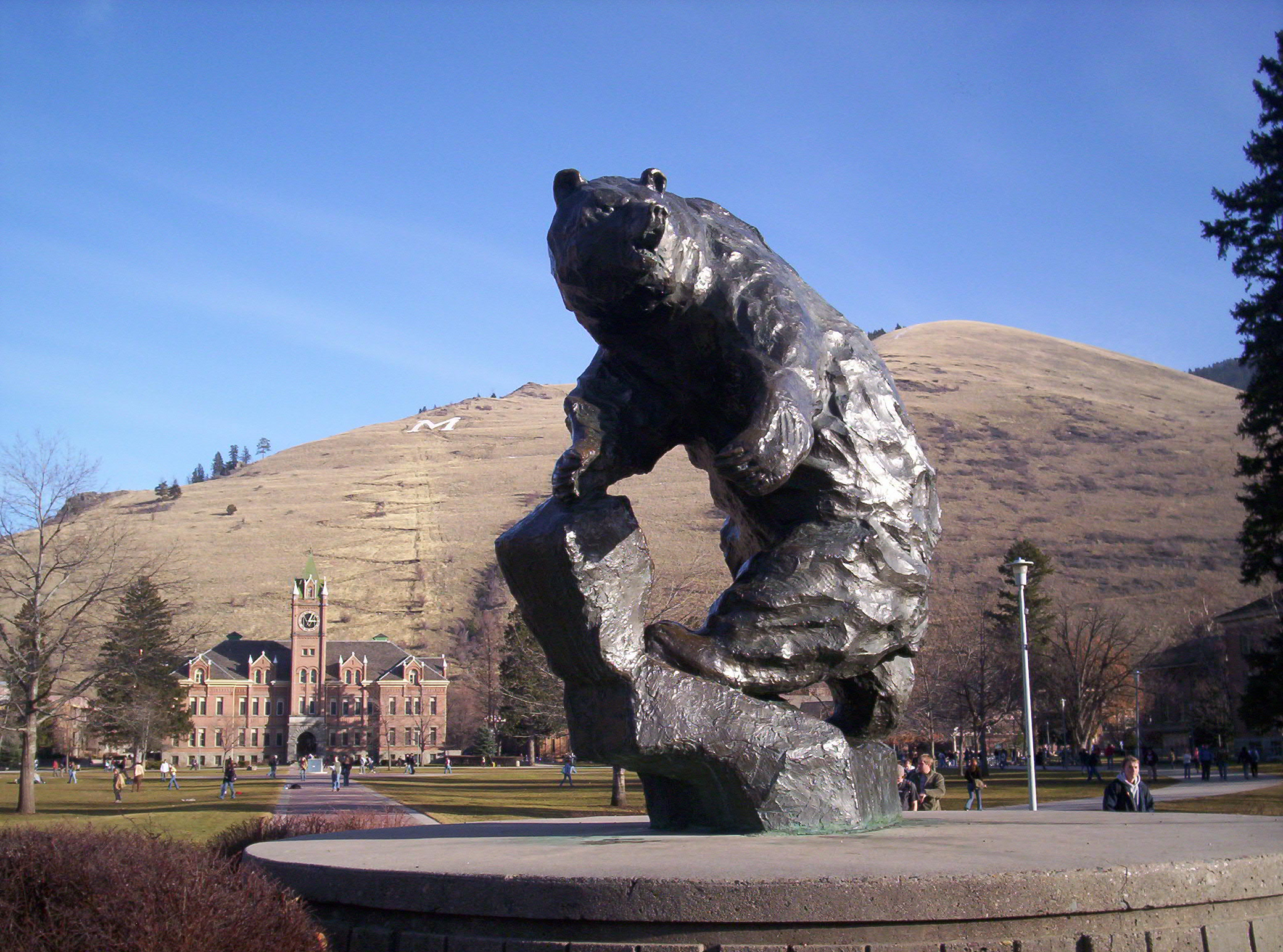 Campus of University of Montana 2006